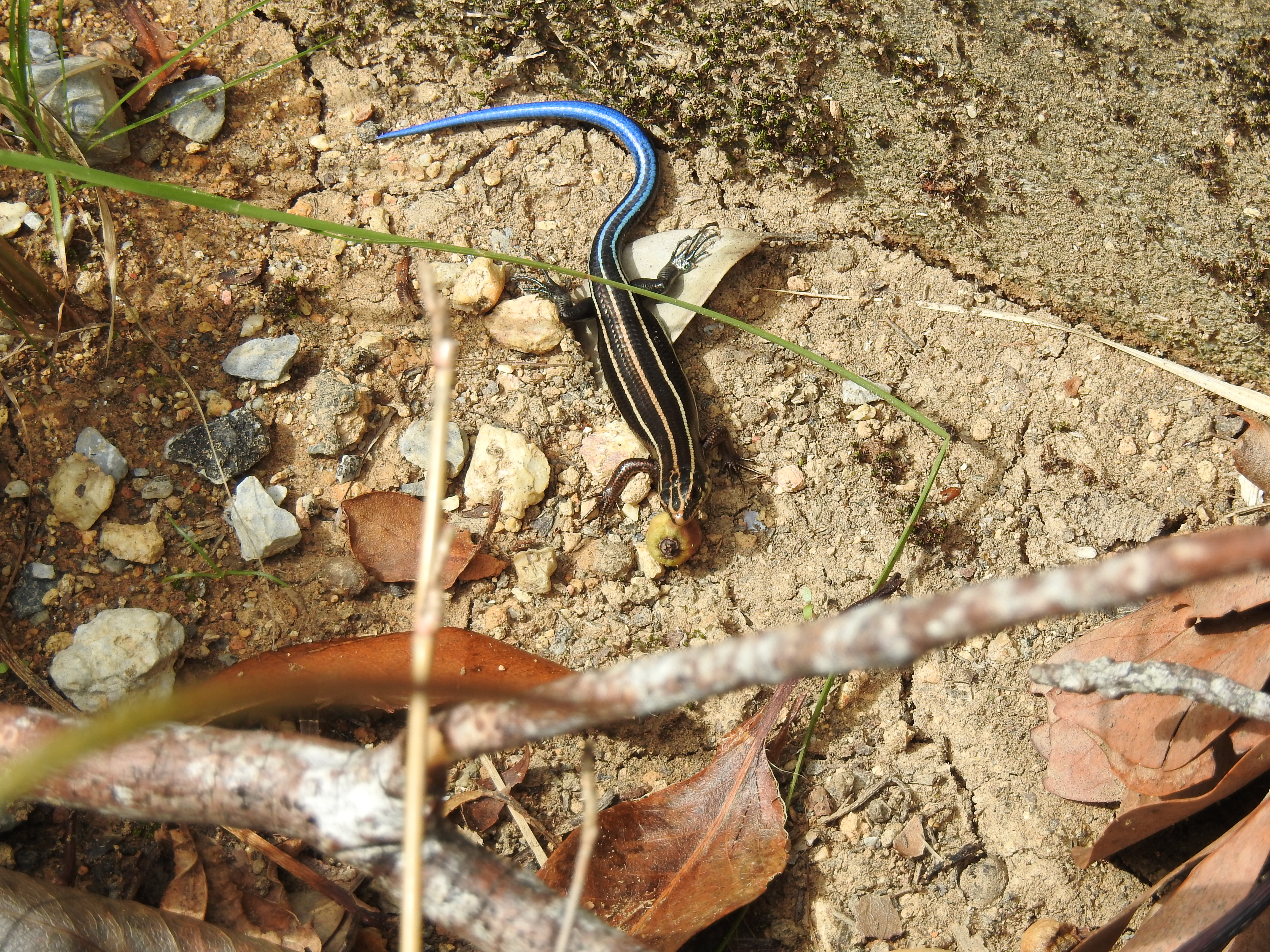 A Plestiodon Barbouri found at Shinkawa Dam, Higashi Village, Okinawa.